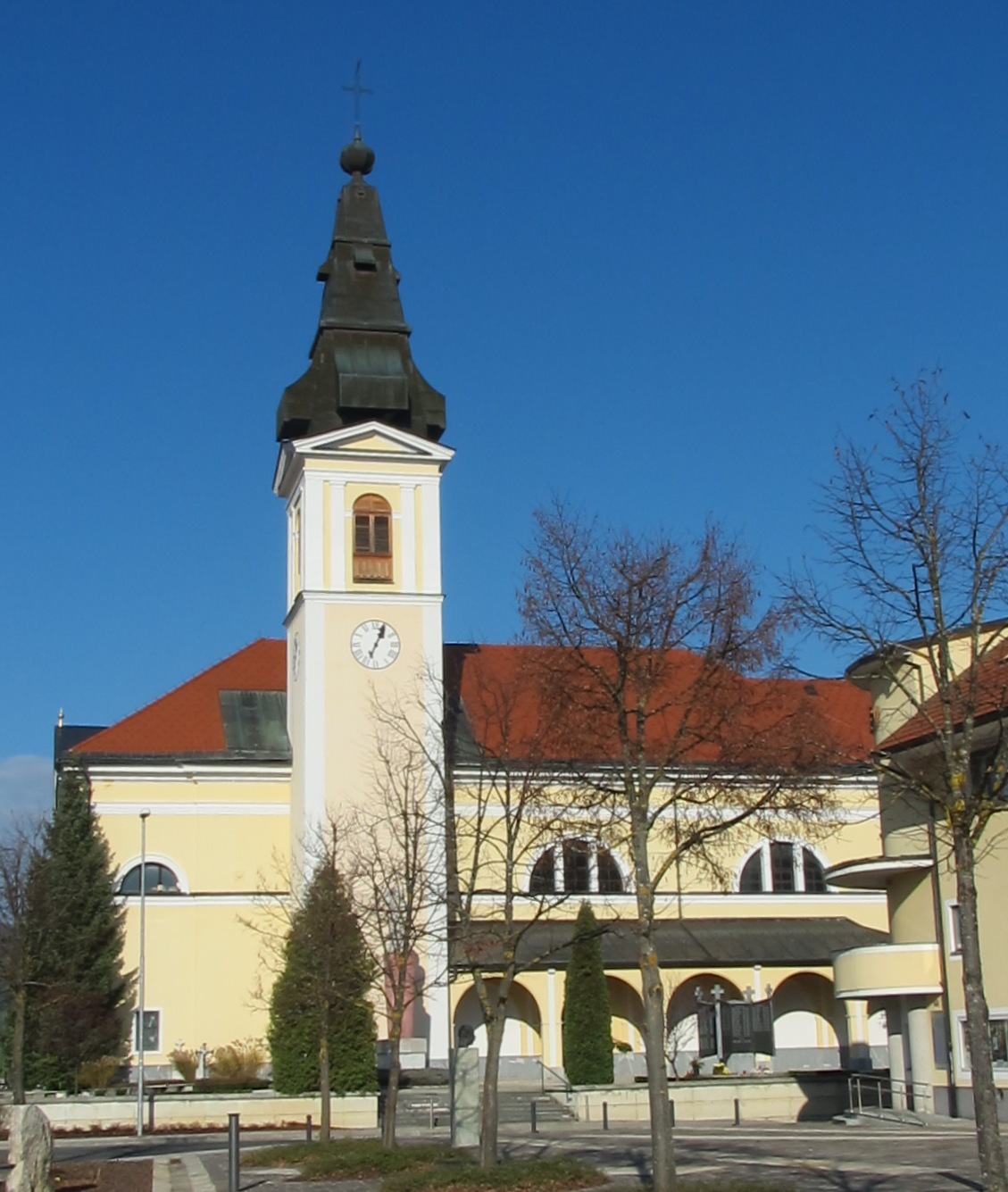 Holy Cross Church in Videm, Municipality of Dobrepolje, Slovenia. View from the south.